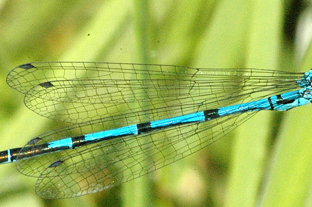 Picture taken in Commanster, Belgian High Ardennes . Species: Coenagrion puella wing detail